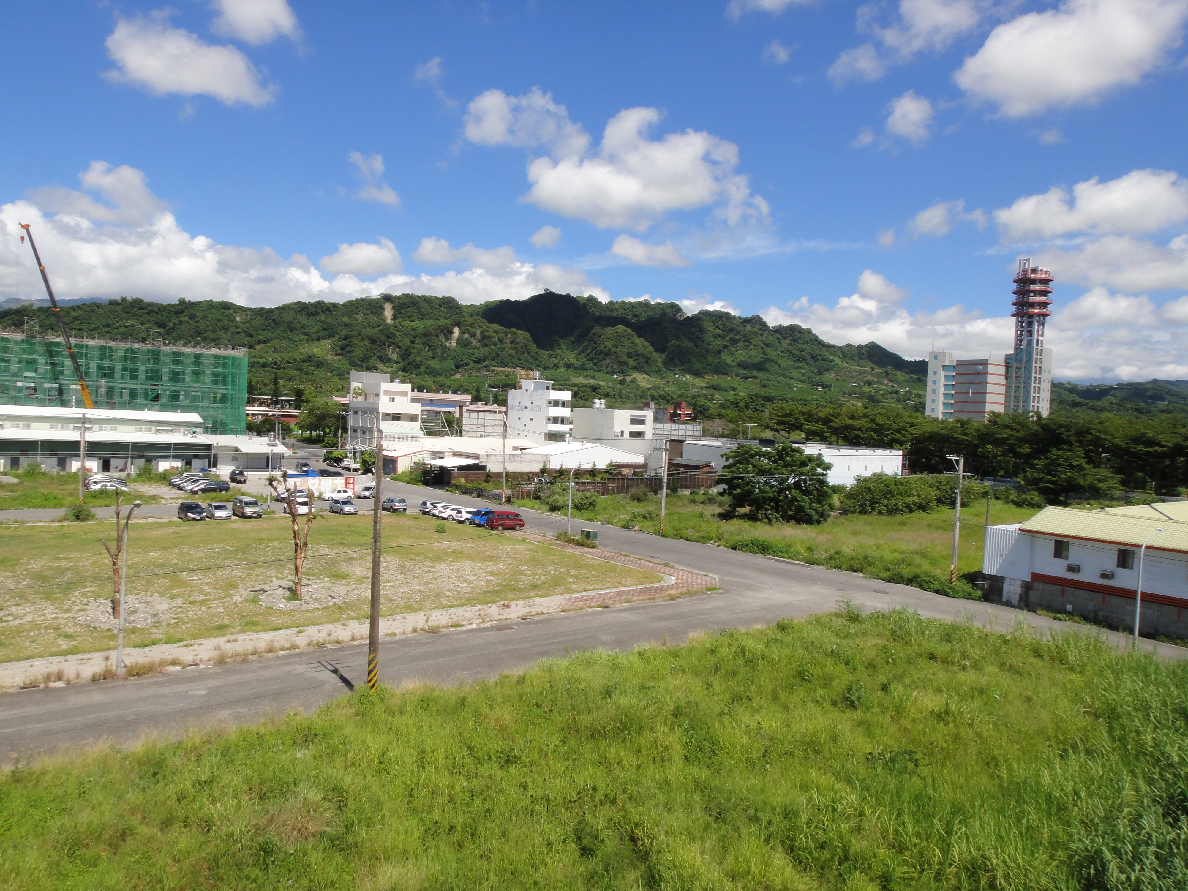 The Scenery around Taitung (new) Station